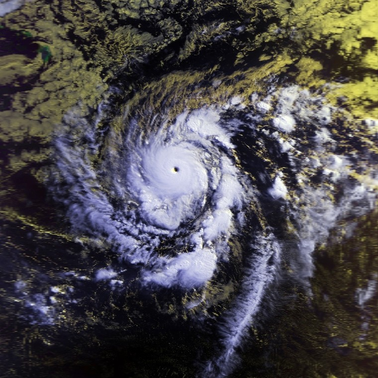 This image shows Hurricane Emilia on July 19 at 1656 UTC. The storm's maximum sustained winds at the time were around 160 mph. This image was produced from data from NOAA-12, provided by NOAA.